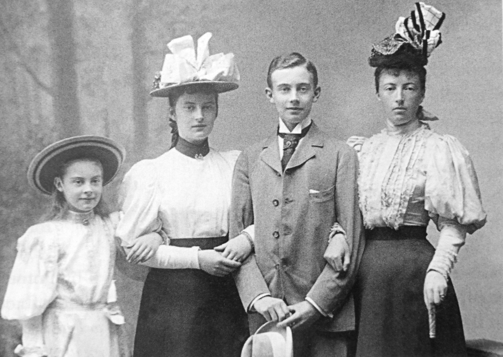 Grand Duchess Anstasia Mikhailovna of Russia with her three chidlren